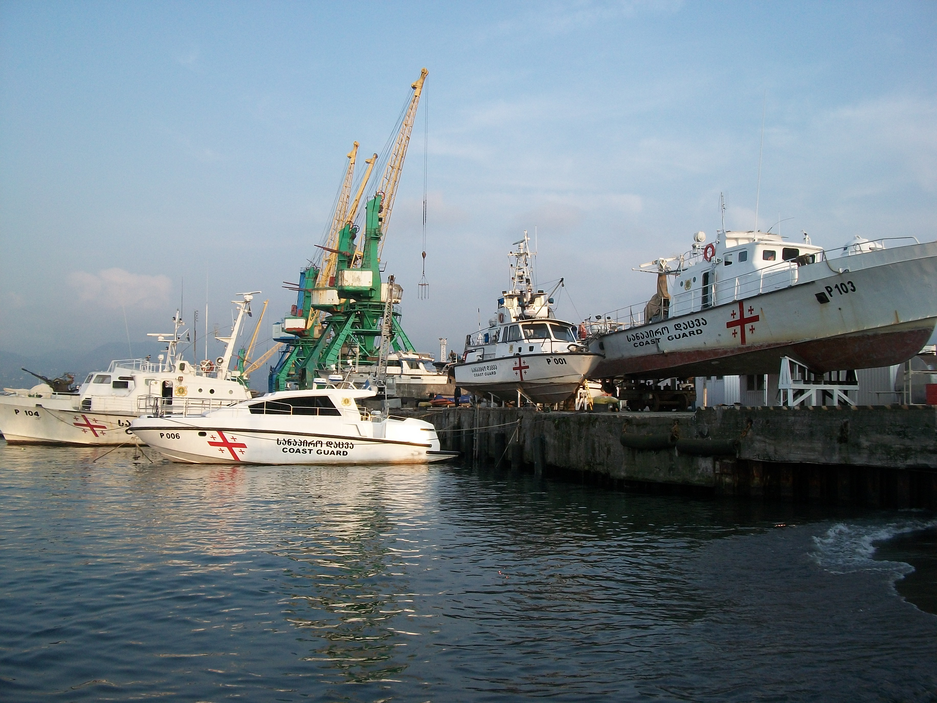 Georgian coast guard vessels. P 001 is an American built 40-foot Dauntless class patrol boat. Project 1400-M border guard ships P 103 and P 104 were built in Batumi. There is a Dilos class patrol boat (ex-Hellenic Coastal patrol boat, German Abeking & Rasmussen bulit) with ZU-23-2 (ex-201 Mest'ia or ex-203 Iberia from ex-Georgian Navy) beyond P 104.